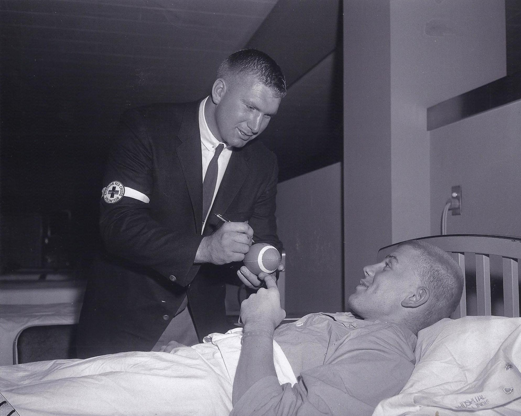 Chicago Bears Visit Great Lakes Hospital patients with Red Cross, October 30, 1961. Photograph taken by Chicago Sun-Times staff photographer Ralph Arvidson. Negative purchased on Ebay by Art's son Gregg Anderson (uploader) from Vintage Sports Images Ltd. on December 26, 2012. Originally purchased from Chicago Sun-Times press archives.